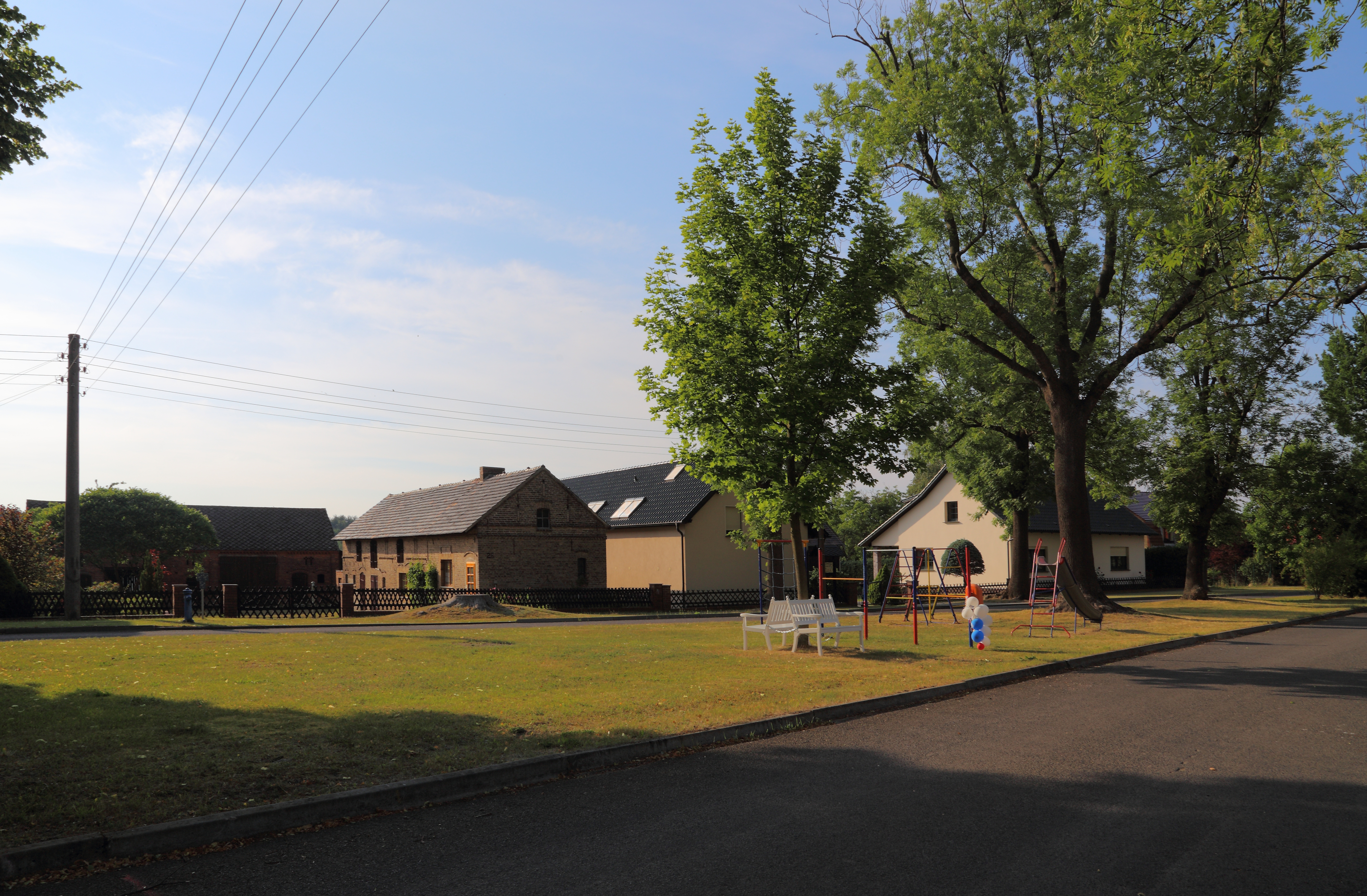 At Dollgen village, a district of Märkische Heide, Landkreis Dahme-Spreewald, Brandenburg, Germany.